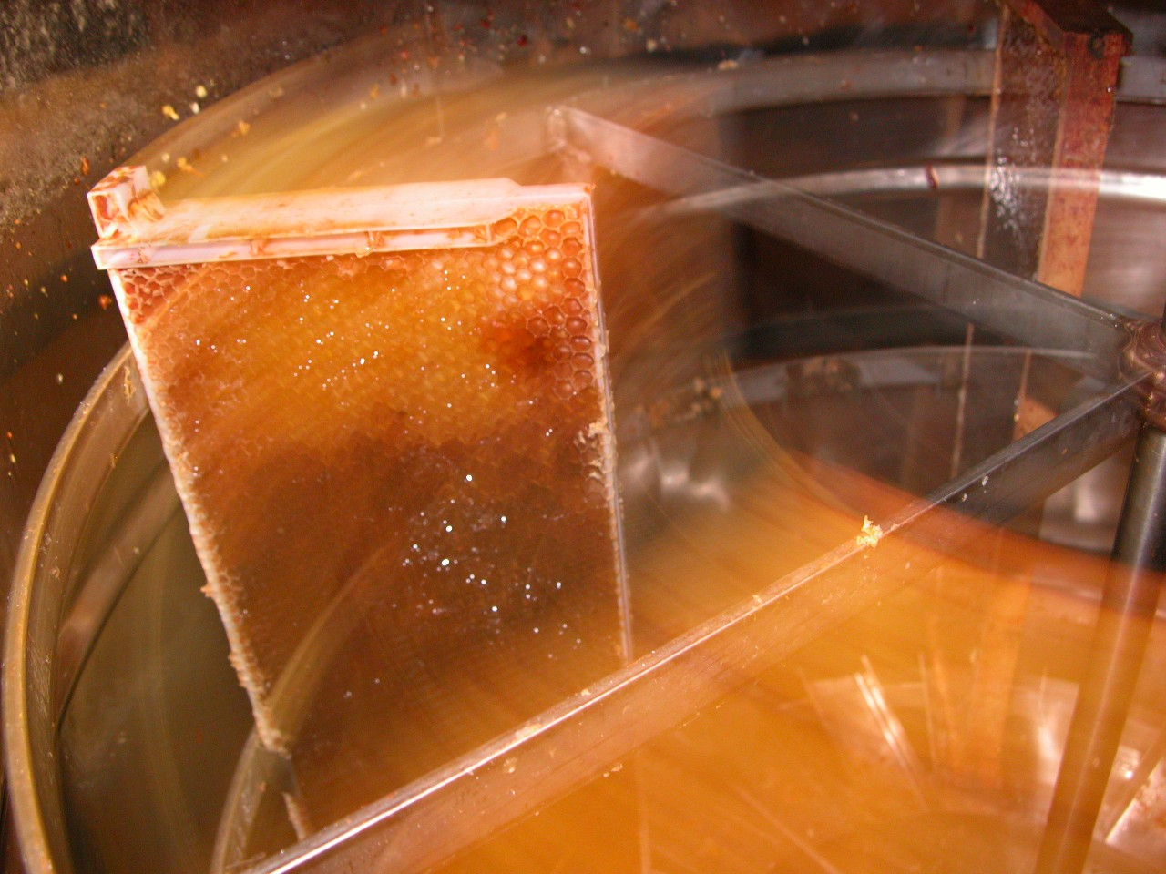 Self made.